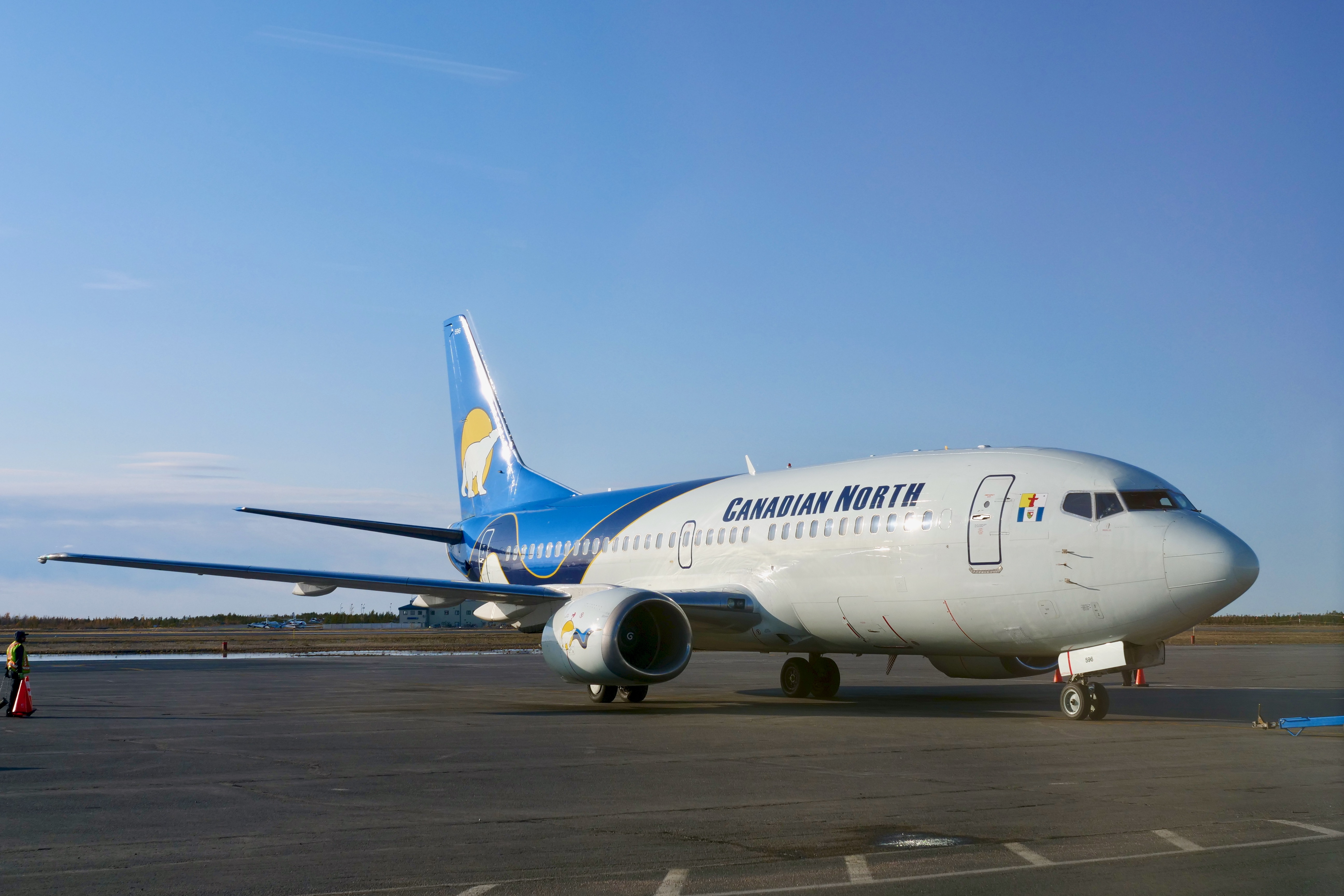 Canadian North 737-300 at Yellowknife Airport